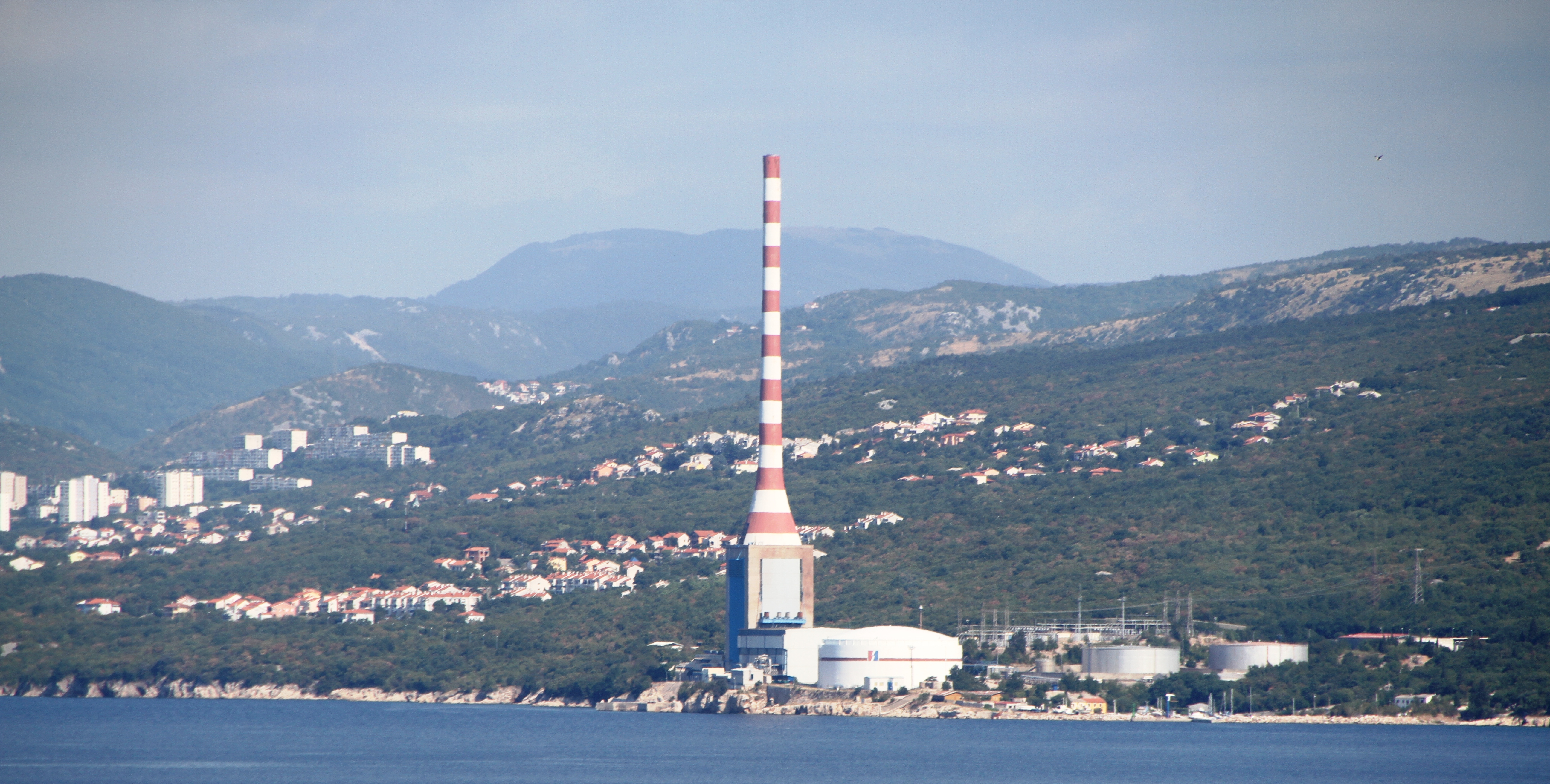 Thermal Power Plant "Rijeka" in the city of Rijeka, Croatia.